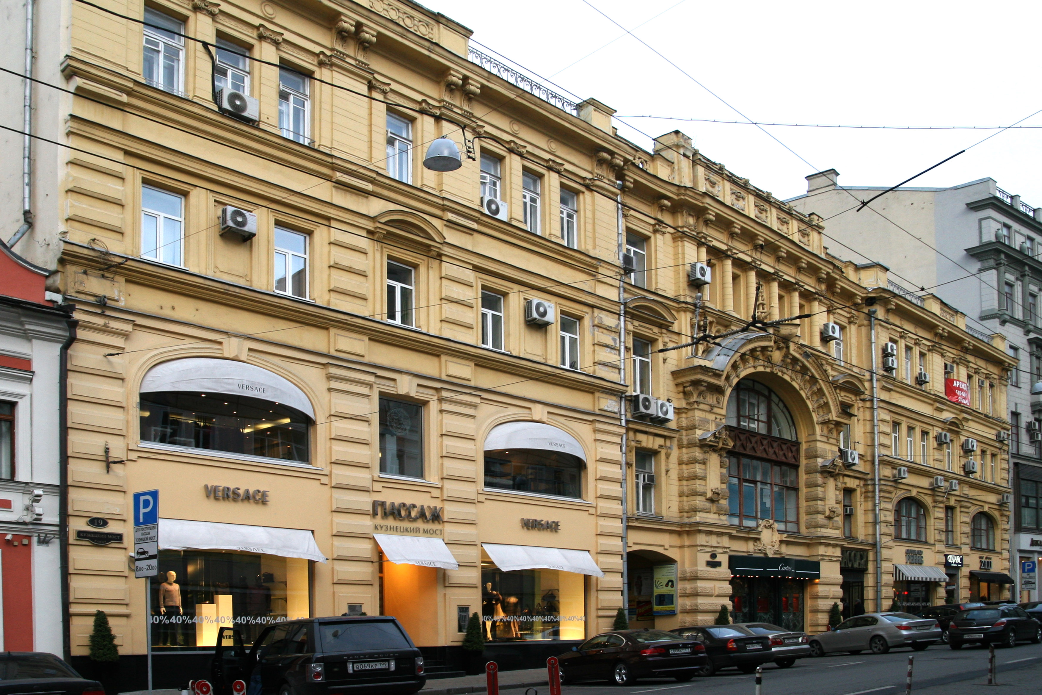 Moscow Kuznetsky Most Street 19